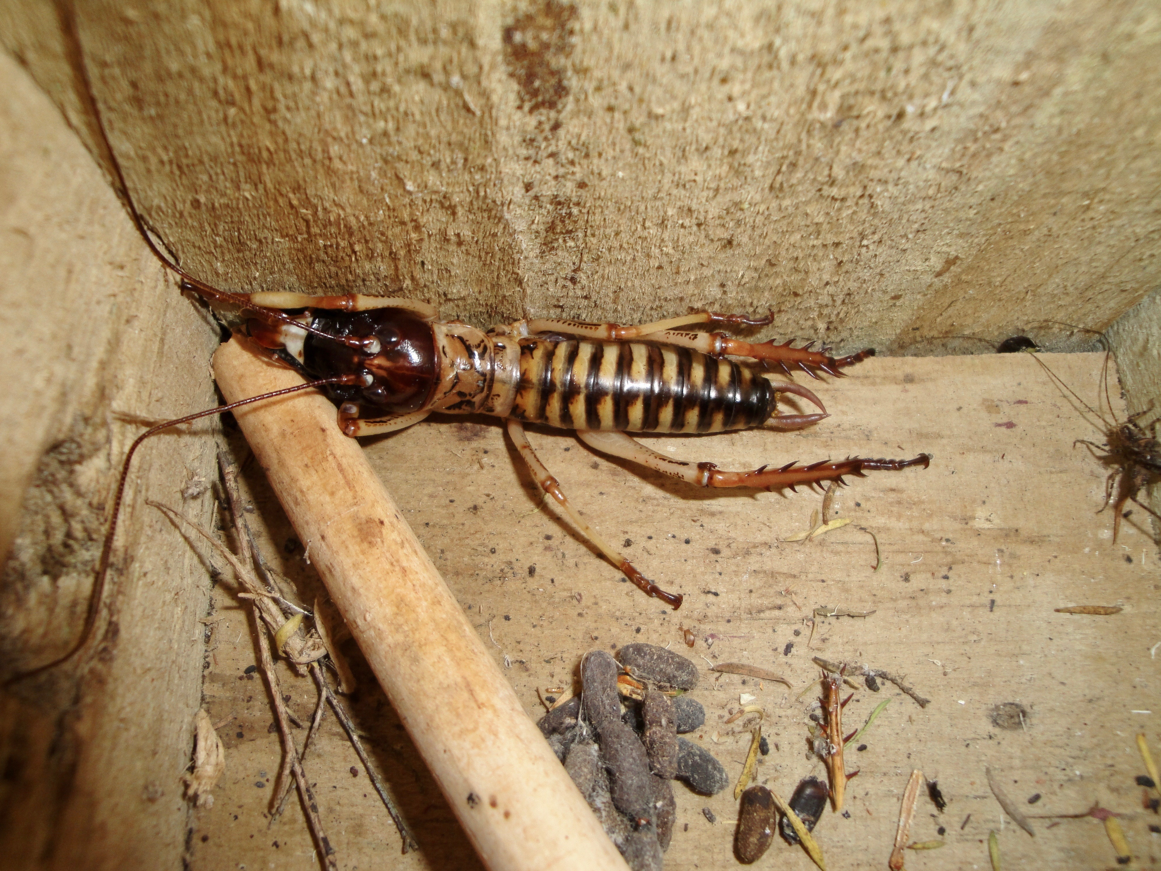 Endemic New Zealand tree wētā. A kind of cricket: Orthoptera, Ensifera, Anostostomatidae